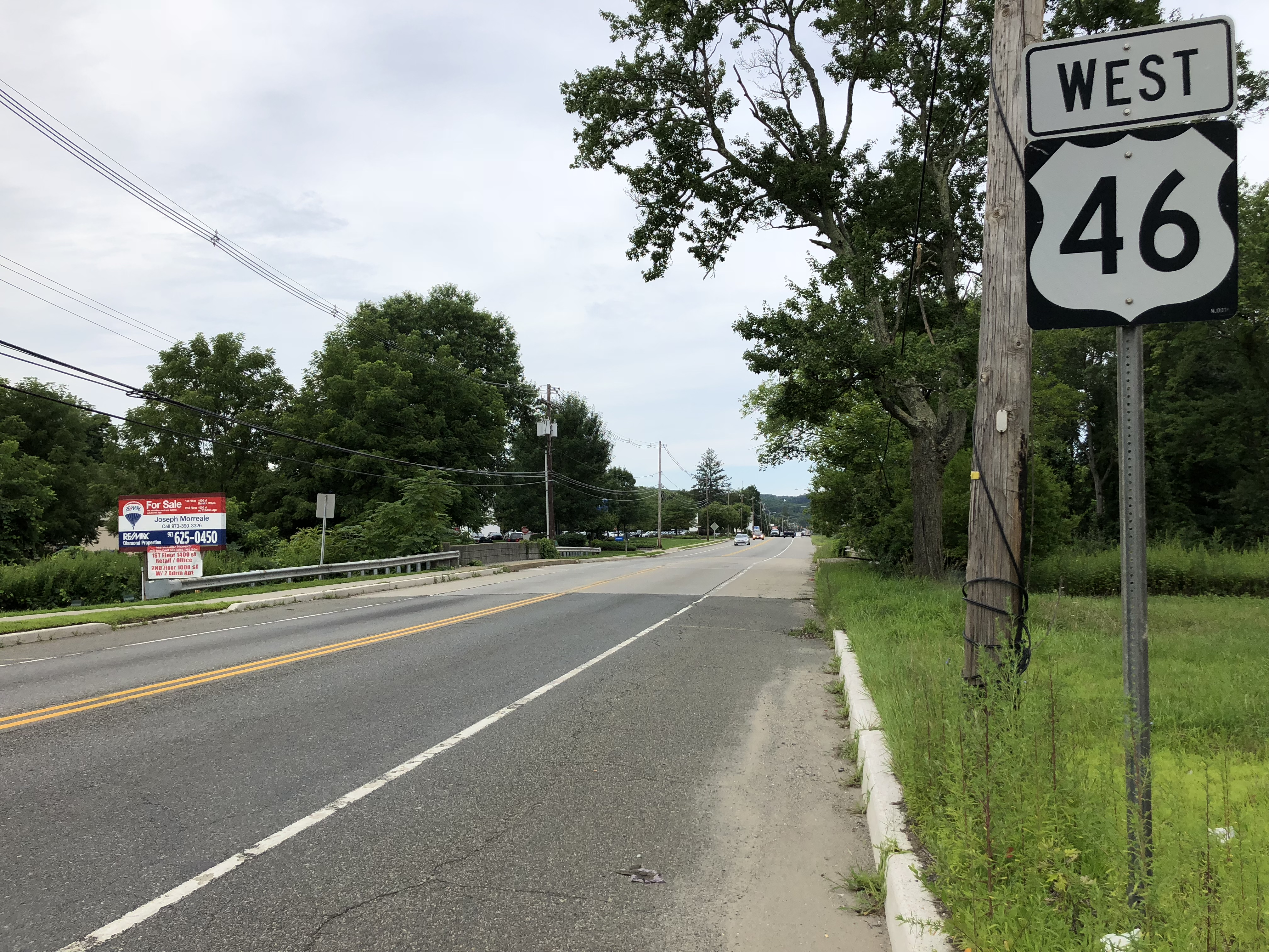 View west along U.S. Route 46 just west of Hercules Road and Hillside Avenue in Roxbury Township, Morris County, New Jersey